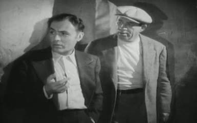 A picture still of John Cromwell's Algiers, 1938 Hollywood remake of "Pépé Le Moko" (1937). Capture shows two fictionalized Algiers Pieds-Noirs, French actor Charles Boyer as Pépé Le Moko (left) and Pennsylvania actor Stanley Fields as Carlos (right).